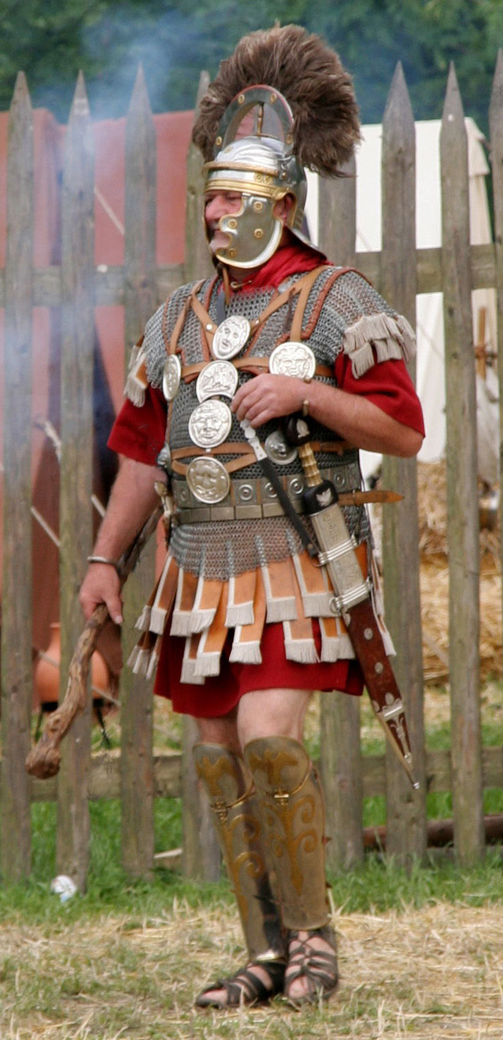 Roman Centurio 70 a.C. Photographed by myself during a show of Legio XV from Pram, Austria Weinstock als Rangabzeichen Beinschienen